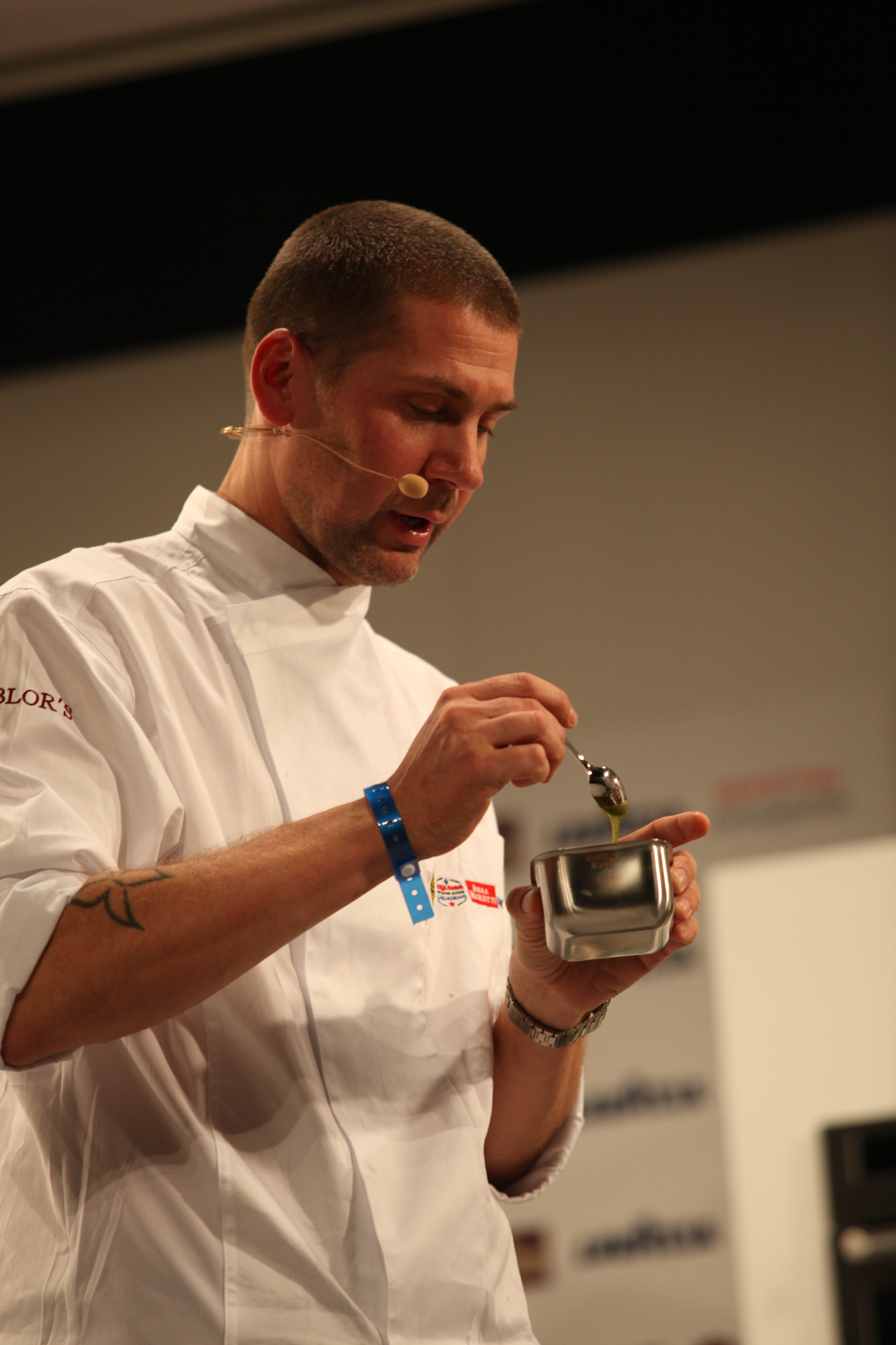 Finish-Turkish celebrity chef Mehmet Gürs.